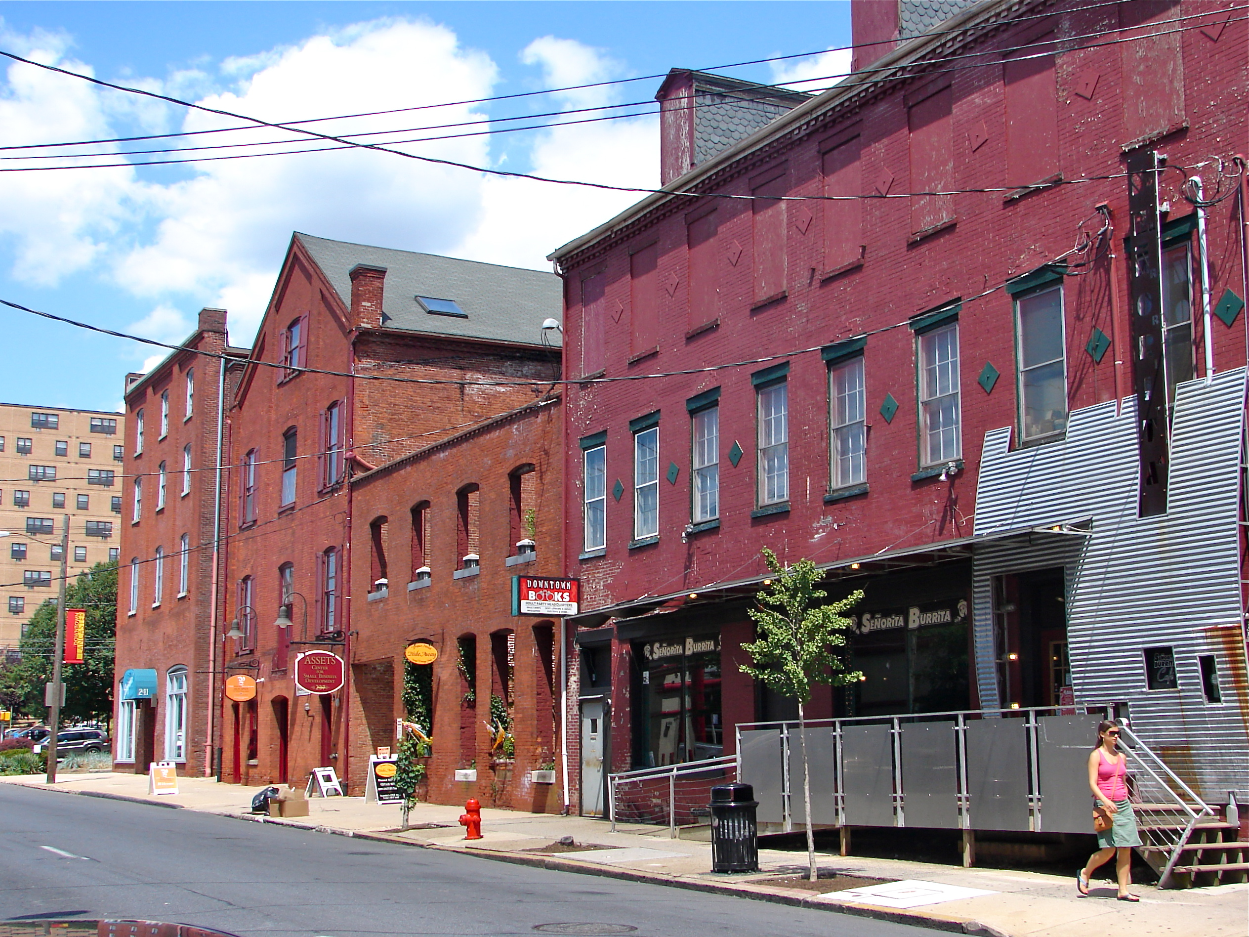 Teller Brothers-Reed Tobacco Historic District on the NRHP since September 21, 1990. On North Prince Street, 200 block, east side, in the Central Business District, Lancaster, Pennsylvania. Part of the NRHP multiple submission for tobacco industry buildings in Lancaster